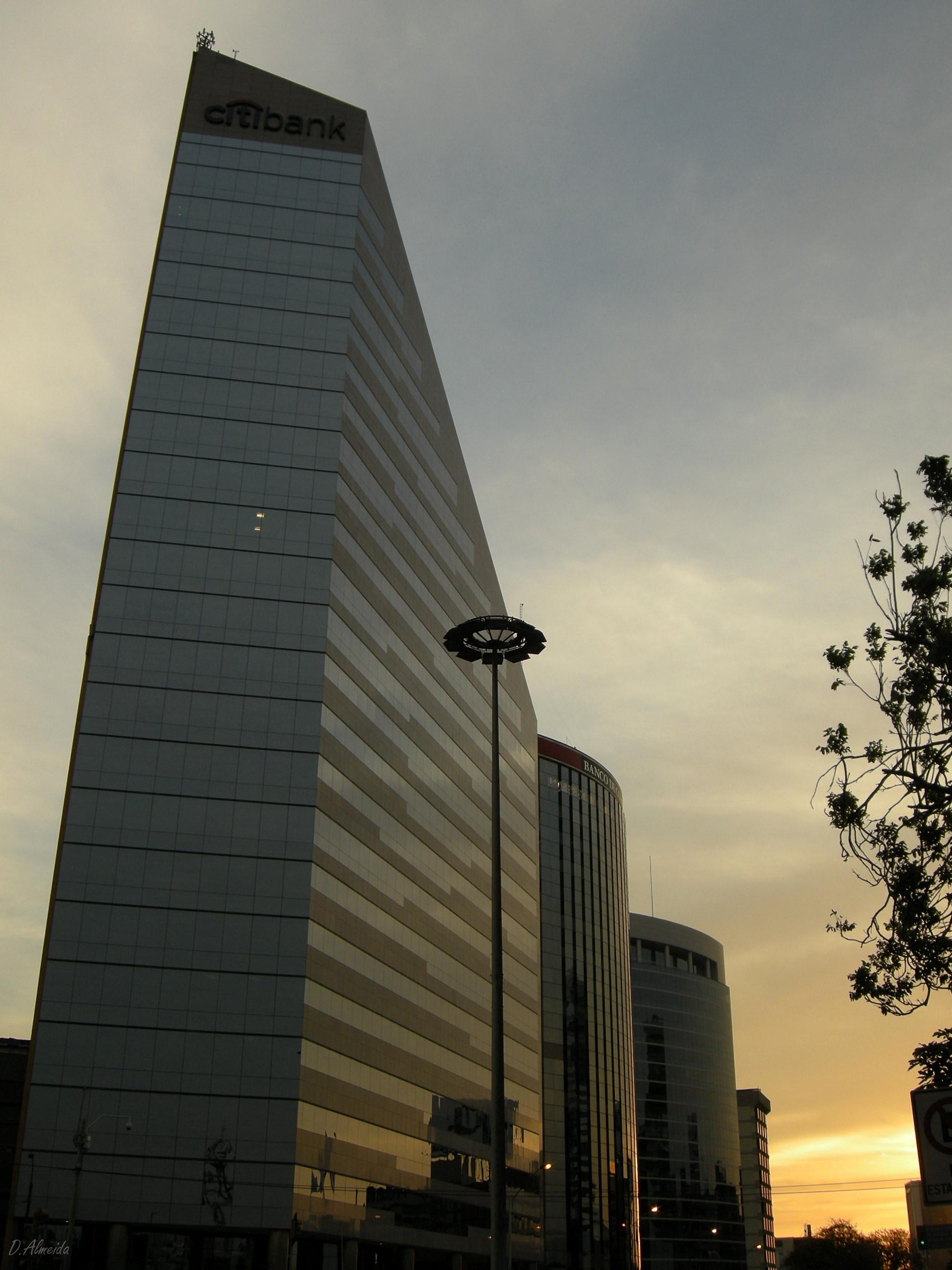 Chocavento Building, in the San Isidro section of Lima, Peru.